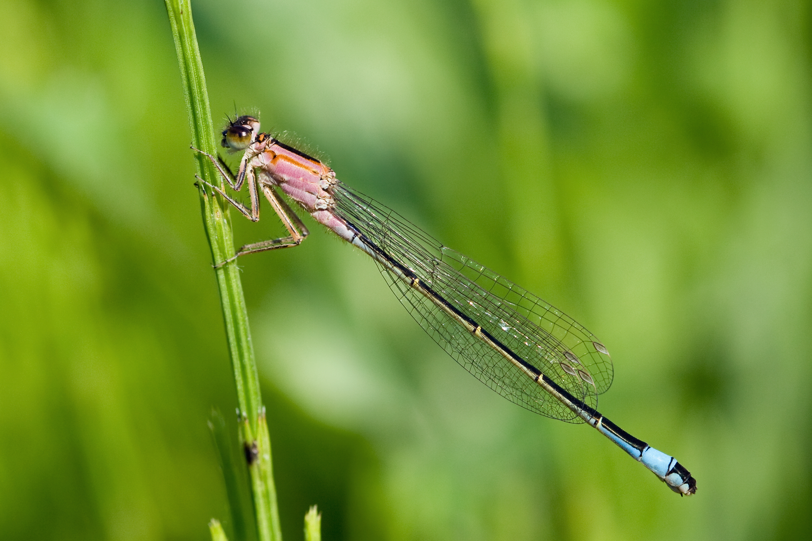 Immature female of the Blue-tailed Damselfly (Ischnura elegans f. rufescens) in the water and landscape park Otterndorf, northern Lower Saxony, Germany. The immature females of Blue-tailed Damselflies occur in two morphs, here the forma rufescens. It will develop with the onset of sexual maturity to old age form infuscans-obsoleta, one of three possible morphs of age form.